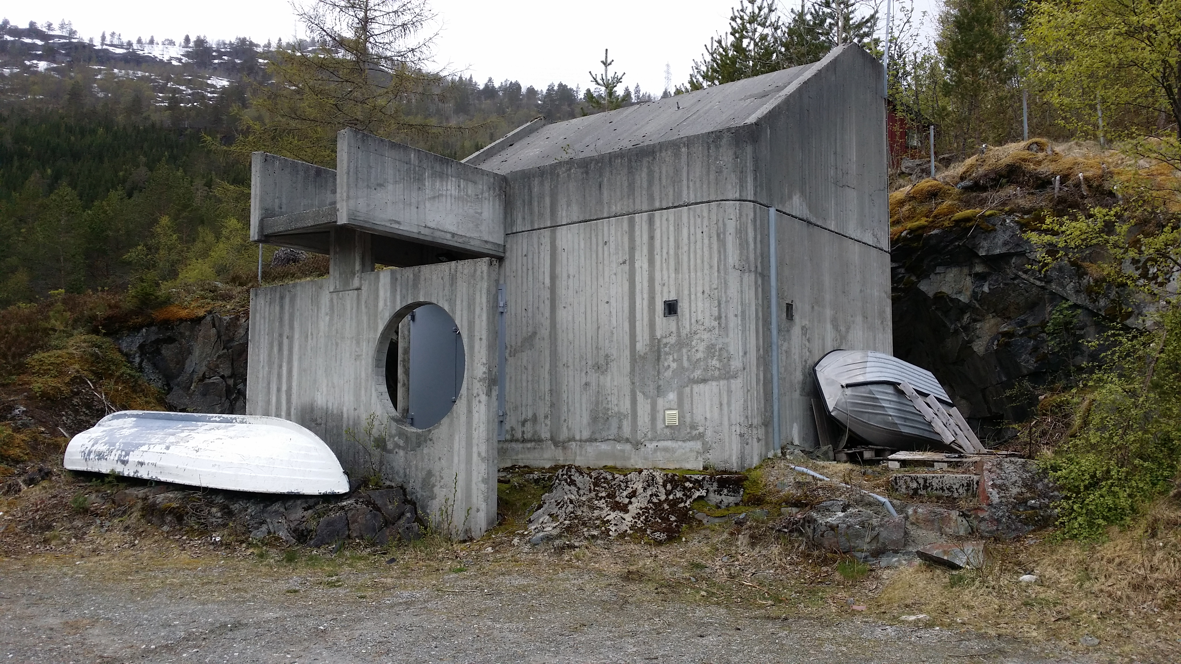 Intake gate house for Oksla Power Station, Ringedalsvatnet, Odda, Norway